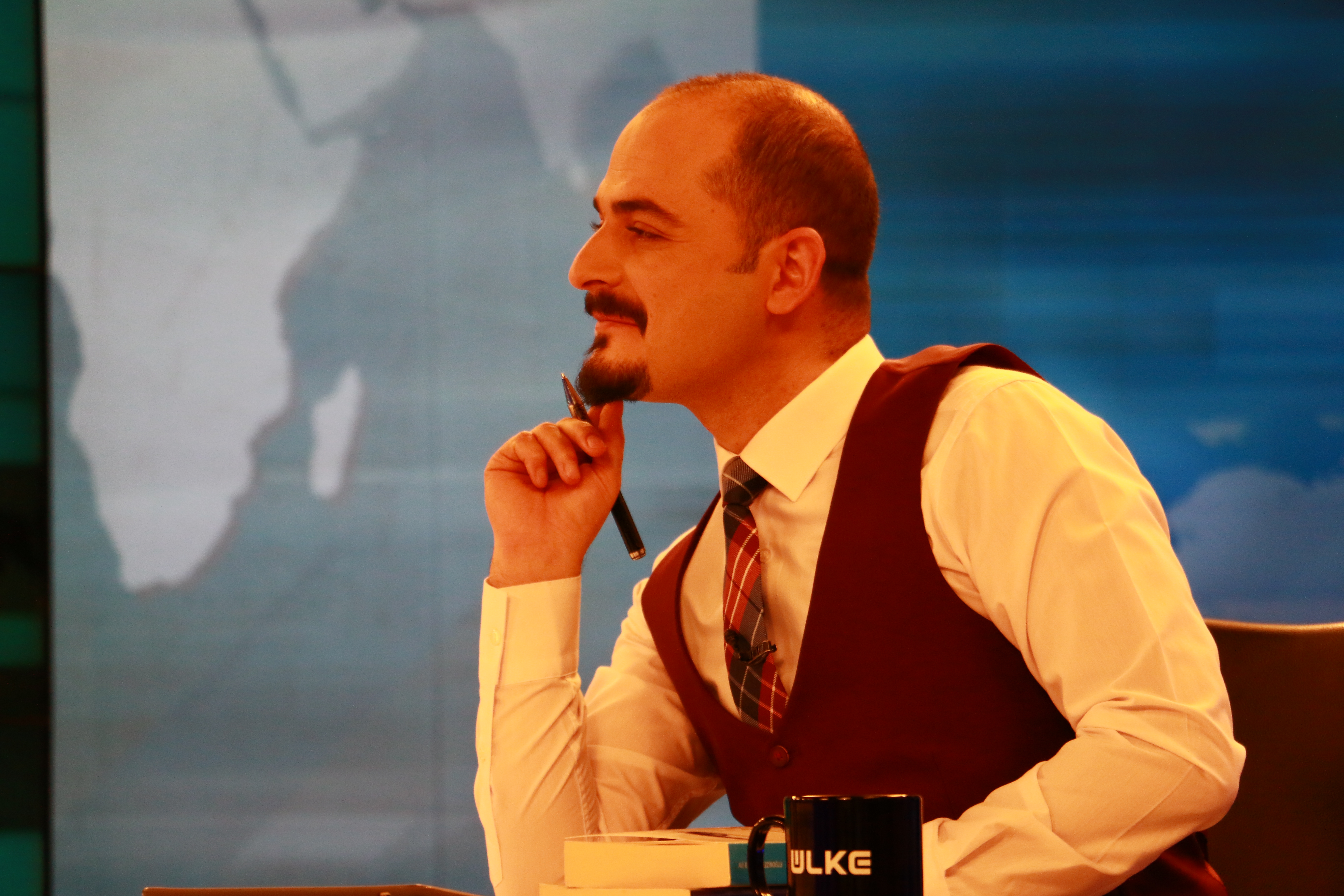 Şaban Özdemir photo taken off air